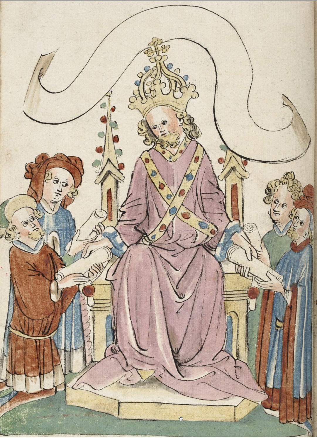 Schwabenspiegel, MS Bruxellensis 14689-91 (early 15h century, by Diebolt Lauber), fol. 95v, Charlemagne as legislator of the Schwabenspiegel